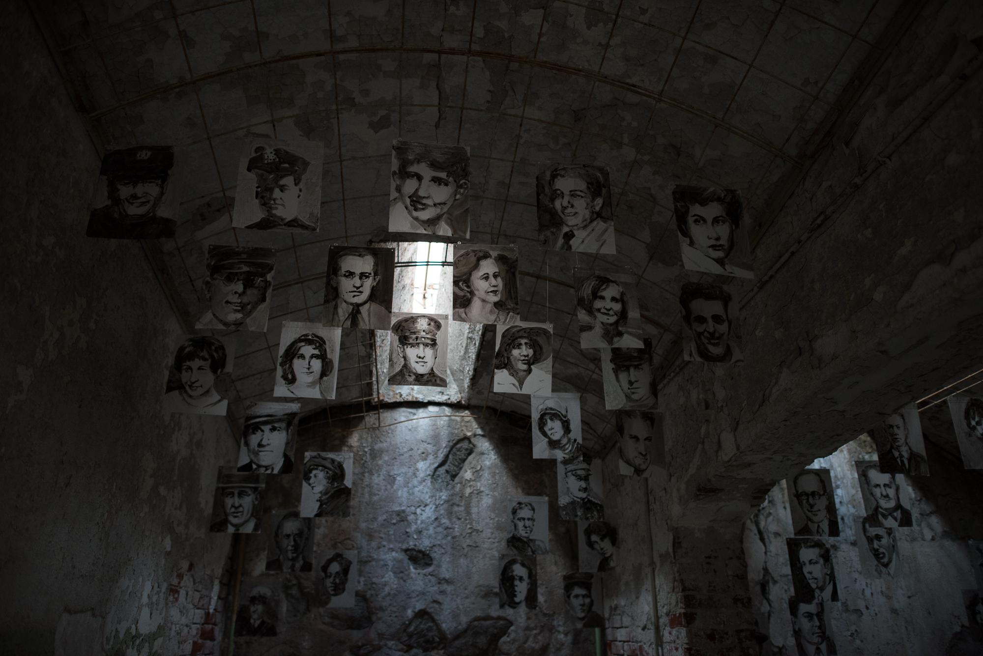 Example of Art Exhibit. These are pictures of people killed by people incarcerated at ESP